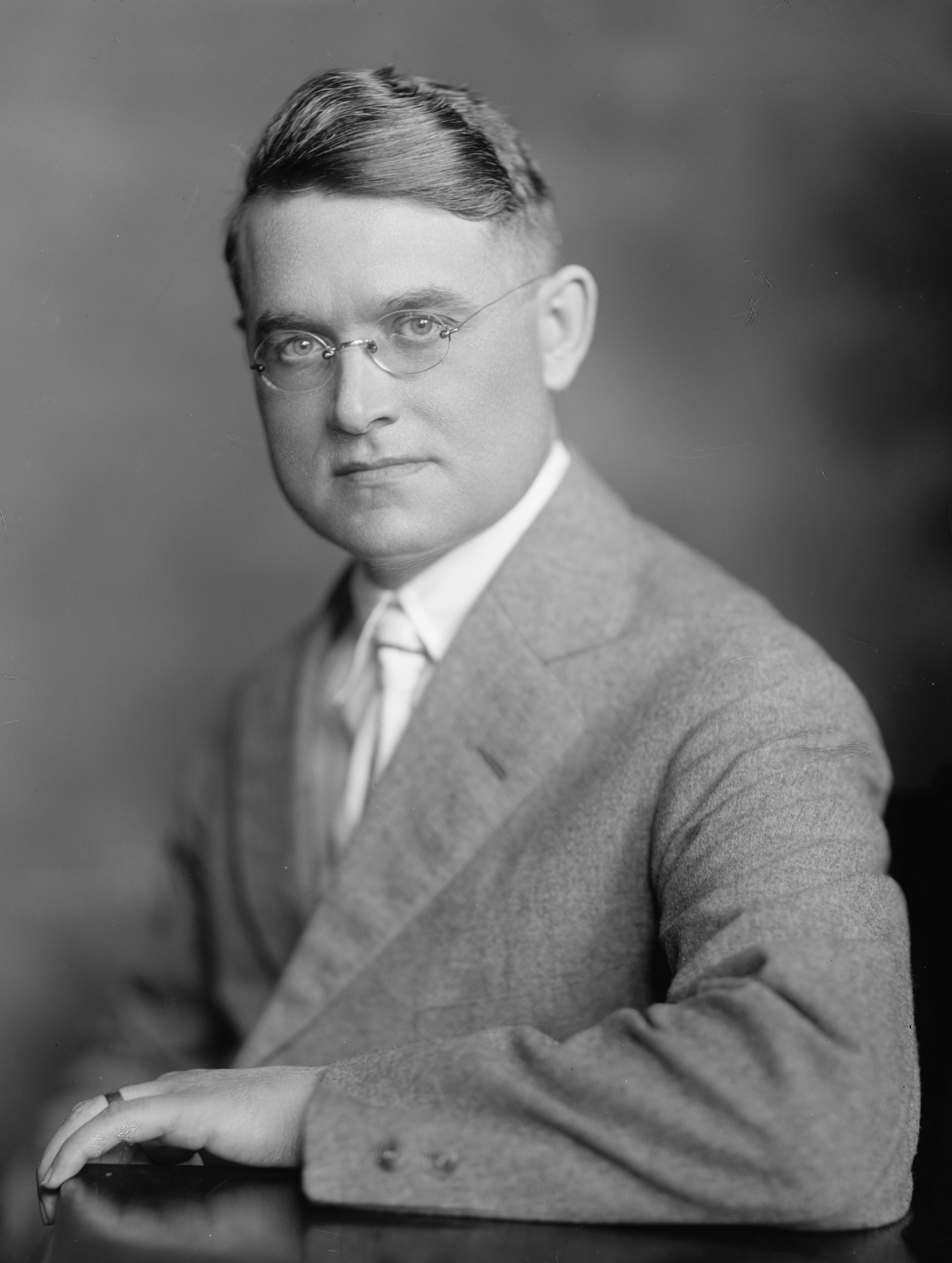 John J. Babka, congressman from Cleveland, Ohio.